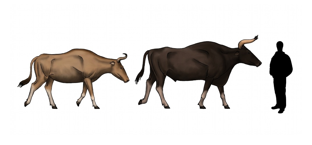 Life restoration of the Kouprey, Bos sauveli, based on photographs and video tapes.